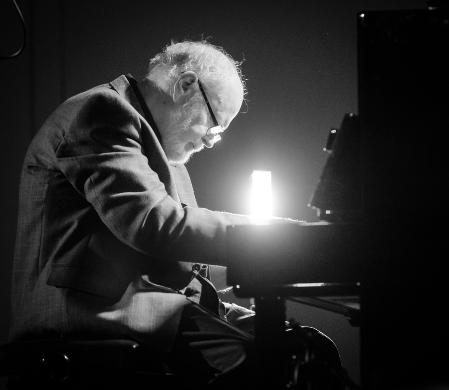 Knut Kristiansen with Knut Kristiansen Tentett and John Riley at the stage at Thon Hotel Jølster. The concert was part of Jazz på Jølst and took place on 14. October 2017. Lineup: Knut Kristiansen (piano), Tor Yttredal (alto saxophone), Zoltan Vincze (tenor saxophone), Michael Barnes (baritone saxophone), Are Ovesen (trumpet), Sindre Dalhaug (trombone), Fred Johannessen (horn), Knut Riser (tuba), Knut Kristiansen (piano), Sigurd Ulveseth (bass guitar) and John Riley (drums).